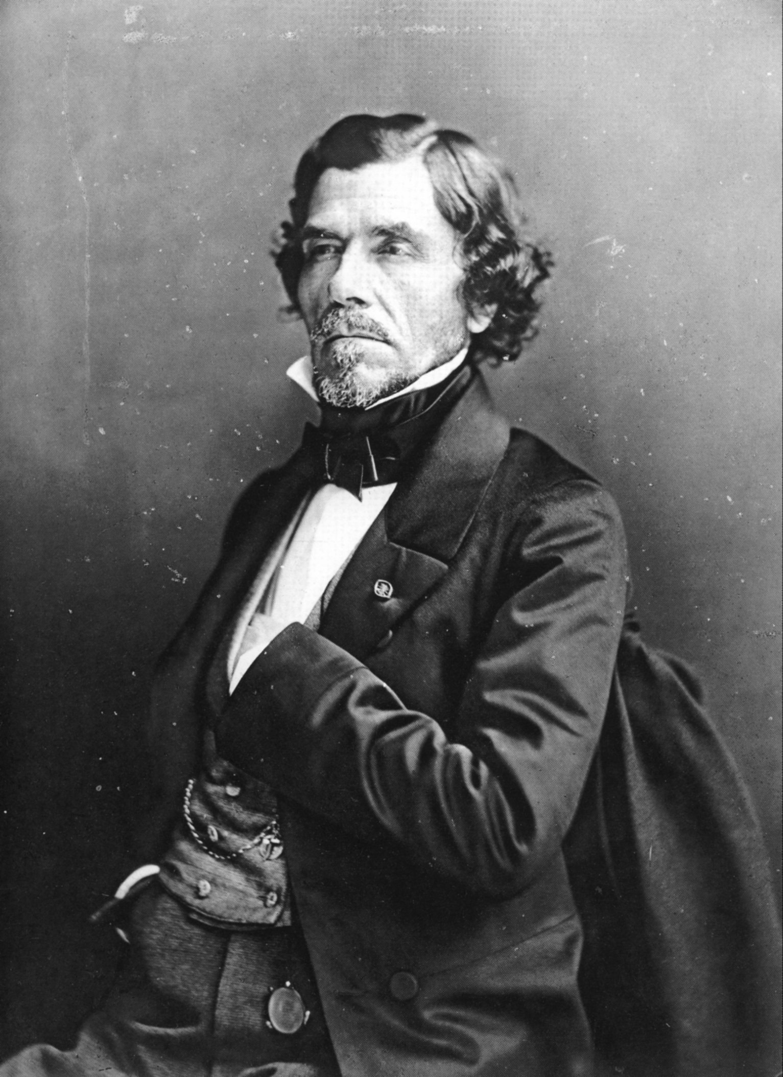 Photography of Eugène Delacroix by Félix Nadar